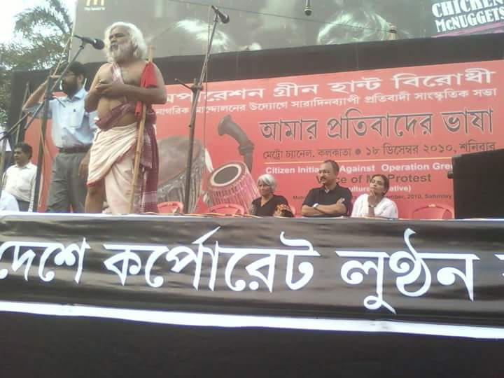 Mass Singer Gaddar in Kolkata against the Operation Green Hunt